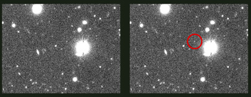 Psamathe